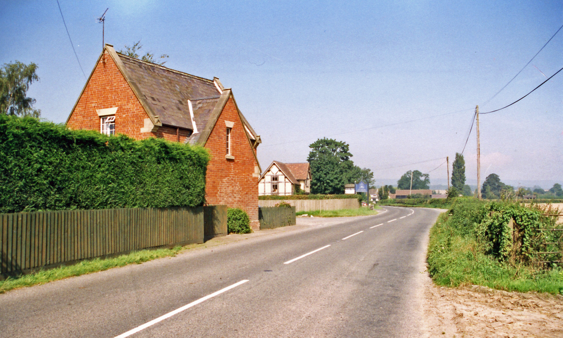 Site of former Kingsland station, 1999. View northward on the A4110, across the course of the ex-GWR Leominster (to right) - (to left) Kington - New Radnor branch, the station had been to the right. The station and line, Leominster - Kington, closed to passengers 7/2/55, to goods 28/9/64; passenger services had been cut back from New Radnor to Kington 5/2/51, goods 31/12/51.